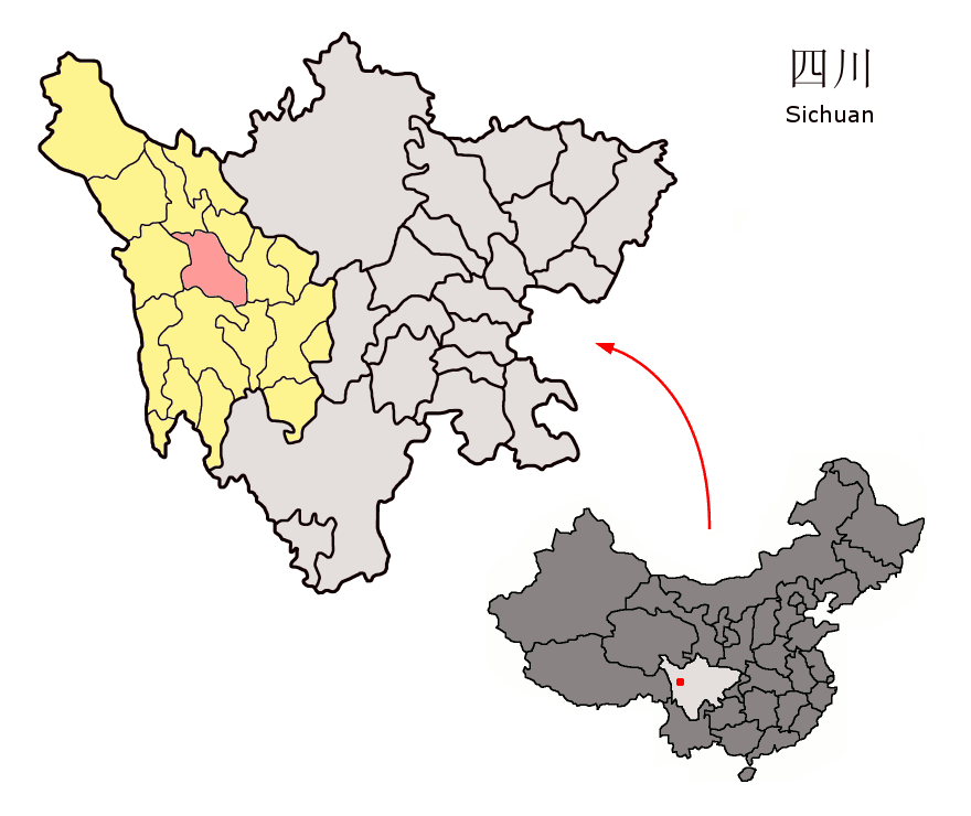 Location of Xinlong County (pink) and Garzê Prefecture (yellow) within Sichuan province of China Map drawn in september 2007 using various sources, mainly : Sichuan province administrative regions GIS data: 1:1M, County level, 1990 Sichuan Counties map from